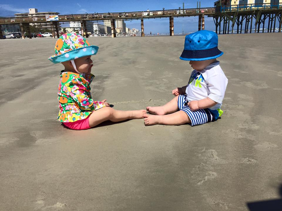 Babies only